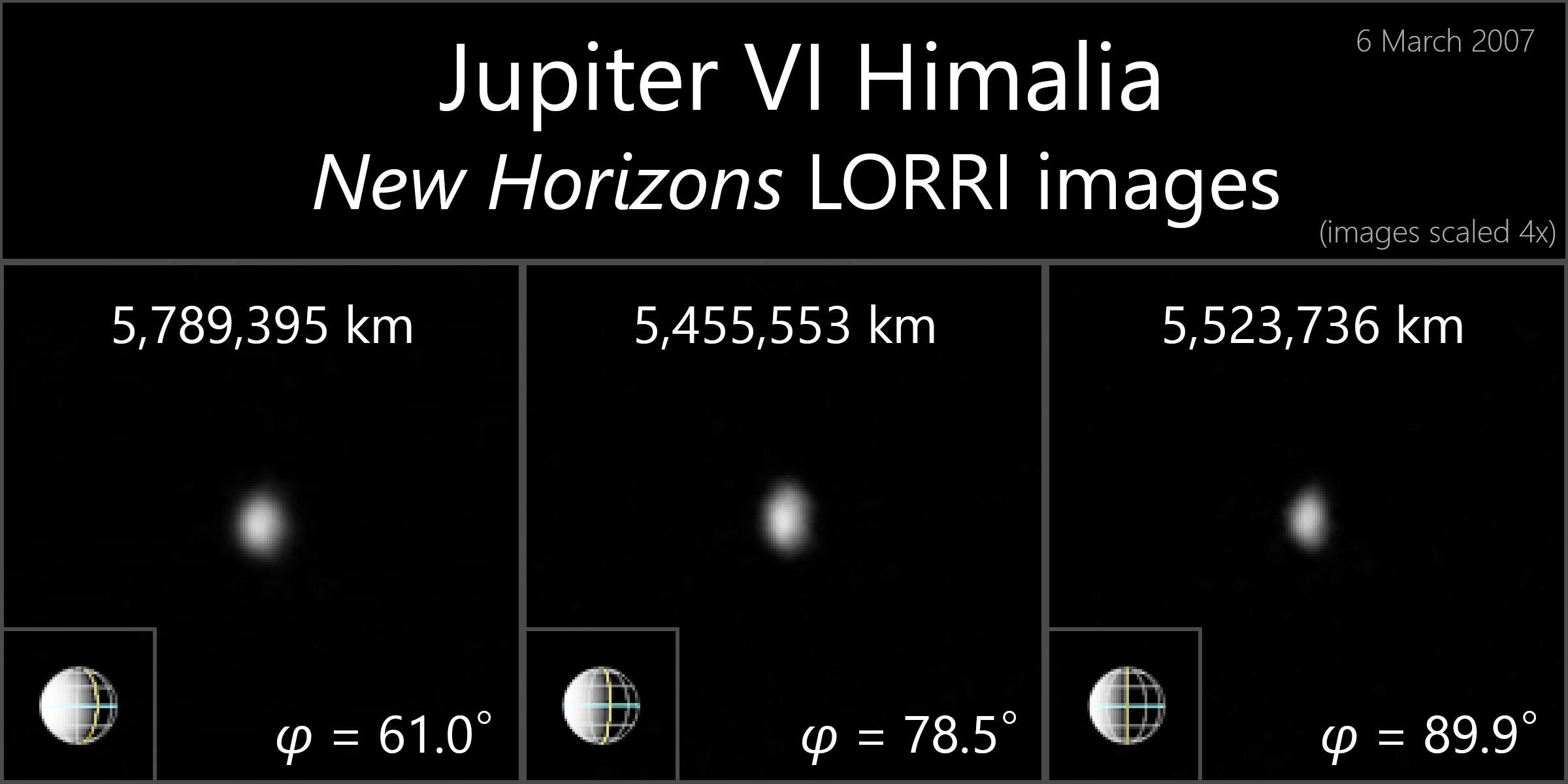 New Horizons LORRI observations of Jupiter's outer moon Himalia, resolved as a disc. Various observation times show changes in Himalia's phase angle (denoted φ) as the spacecraft passed by the Jupiter system in 2007. These images of Himalia have been bicubically scaled 4x and digitally processed from raw images taken on 6 March 2007. The raw images can be downloaded from NASA's PDS Small Bodies Node